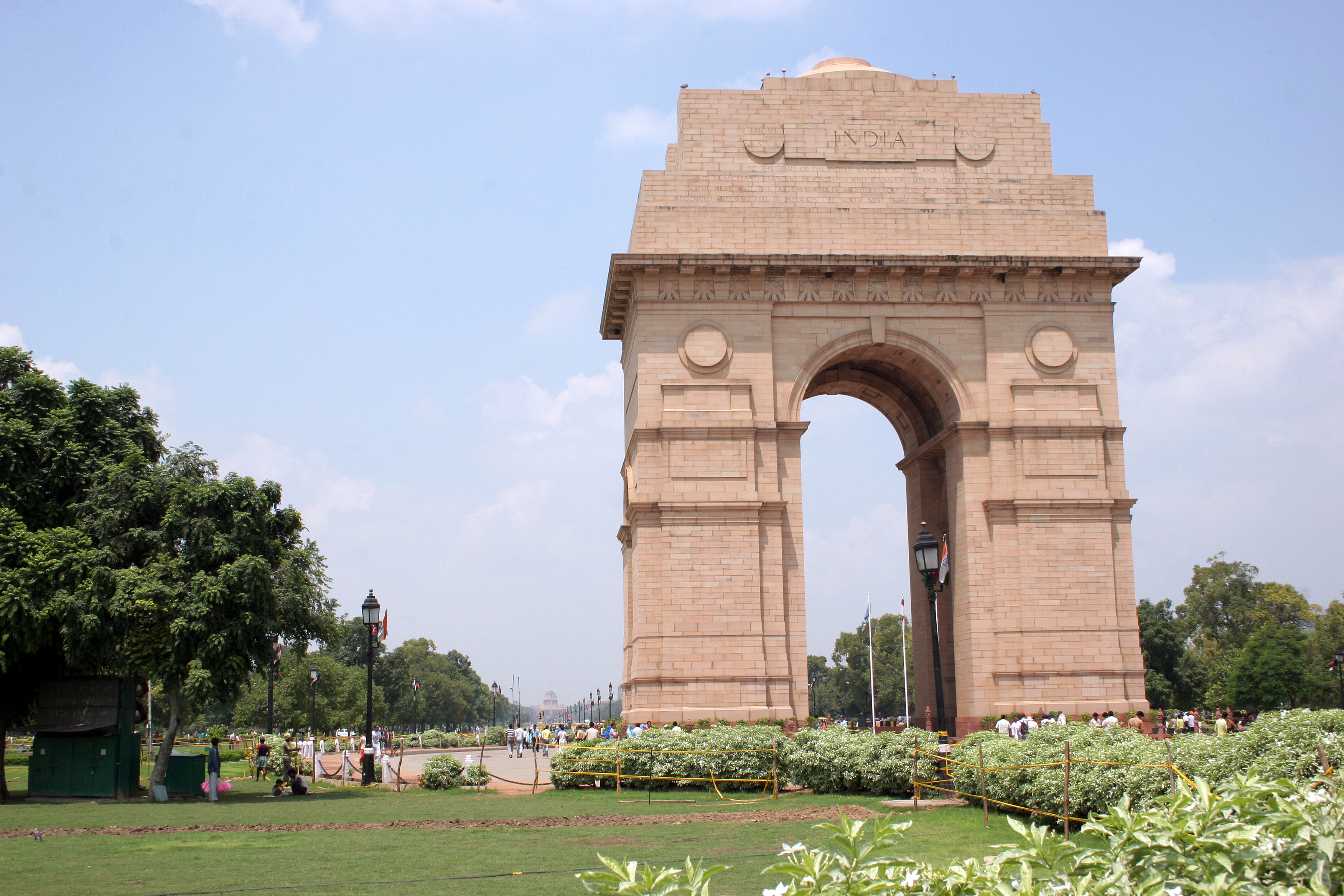 India Gate, a WWI memorial in New Delhi, India.